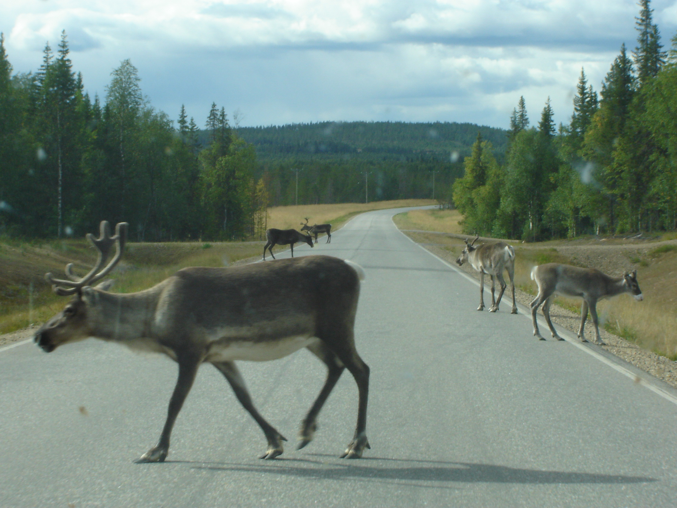 Reindeer at regional road 962 near Sodankylä, Lapland, Finland